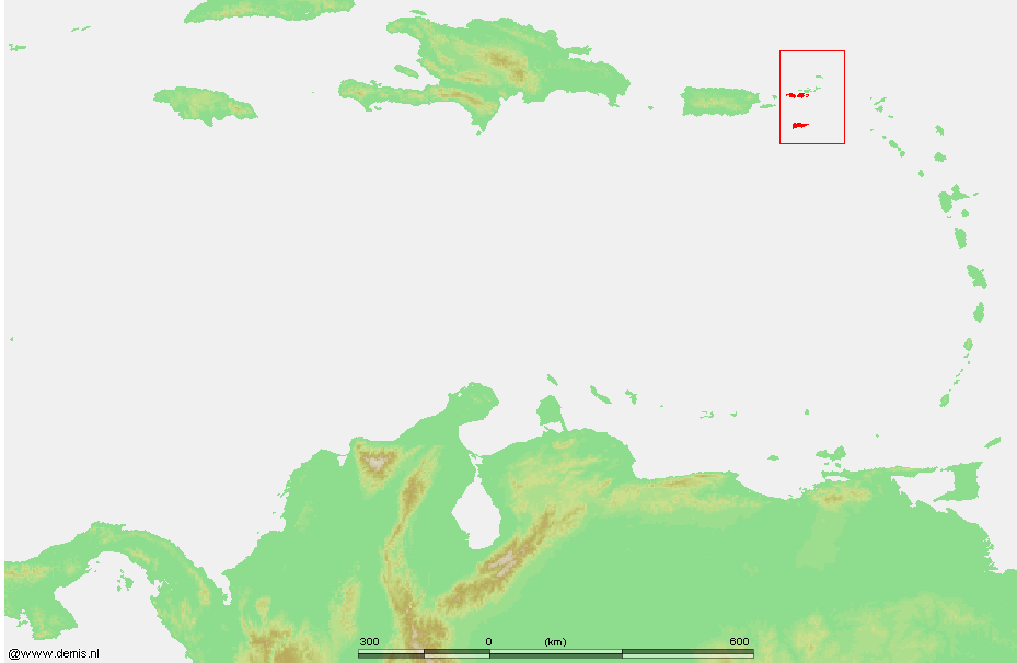 Caribbean - US Virginislands.PNG